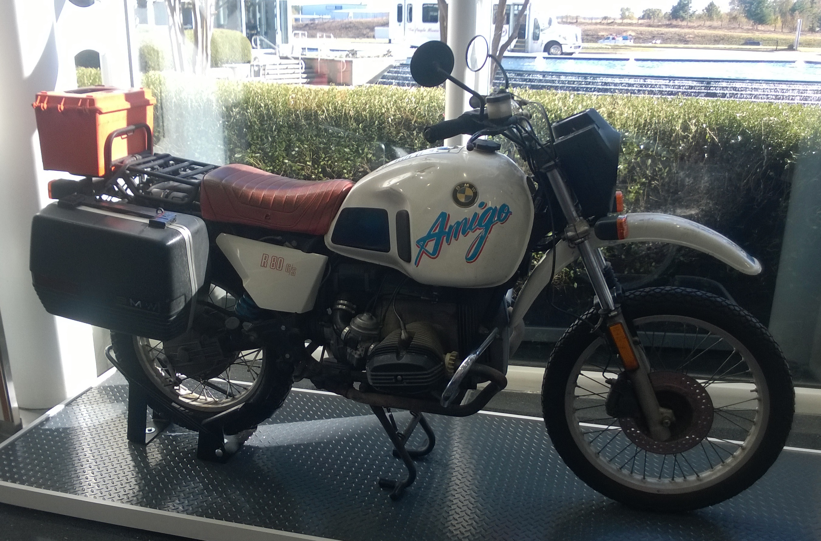 Ed Culberson's BMW R80G/S (nicknamed "Amigo"), the first vehicle to cross the Darién Gap en route to completing a full navigation of the Pan-American Highway